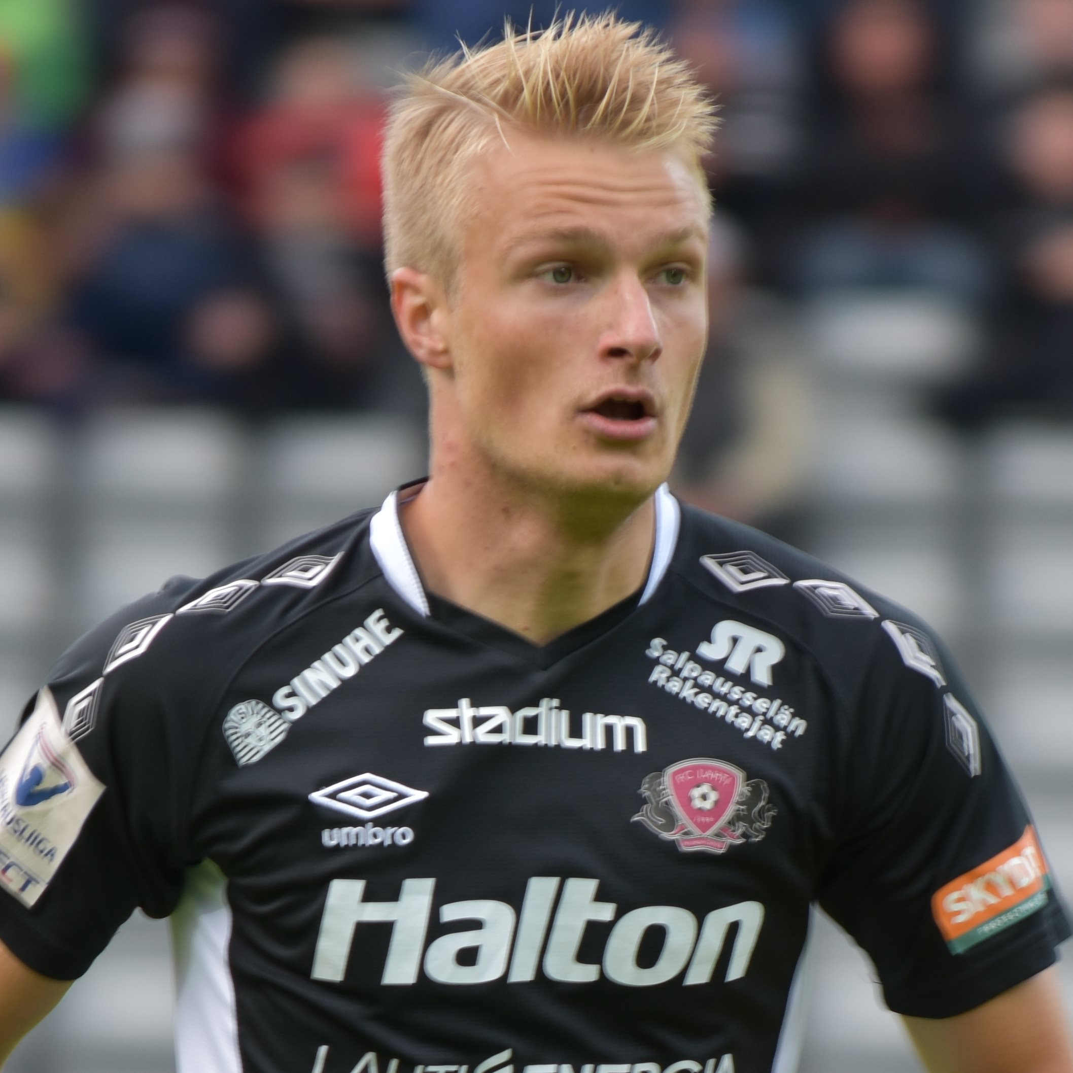 Football player Mikko Kuningas (FC Lahti)